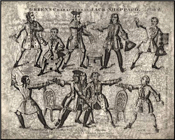 Green's characters in the play "Jack Sheppard"